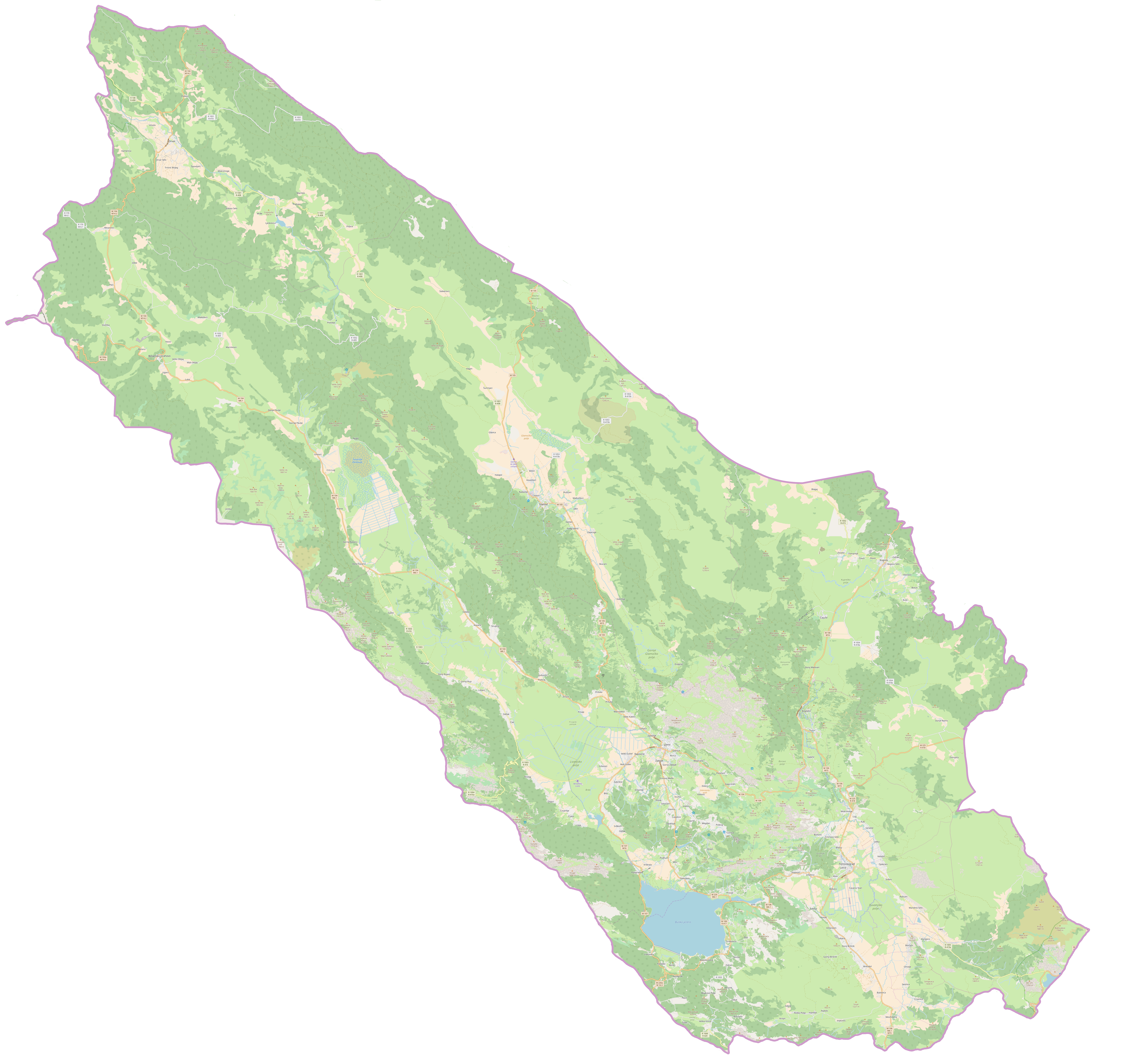 OpenStreetMap of Canton 10 (Herceg-Bosna)